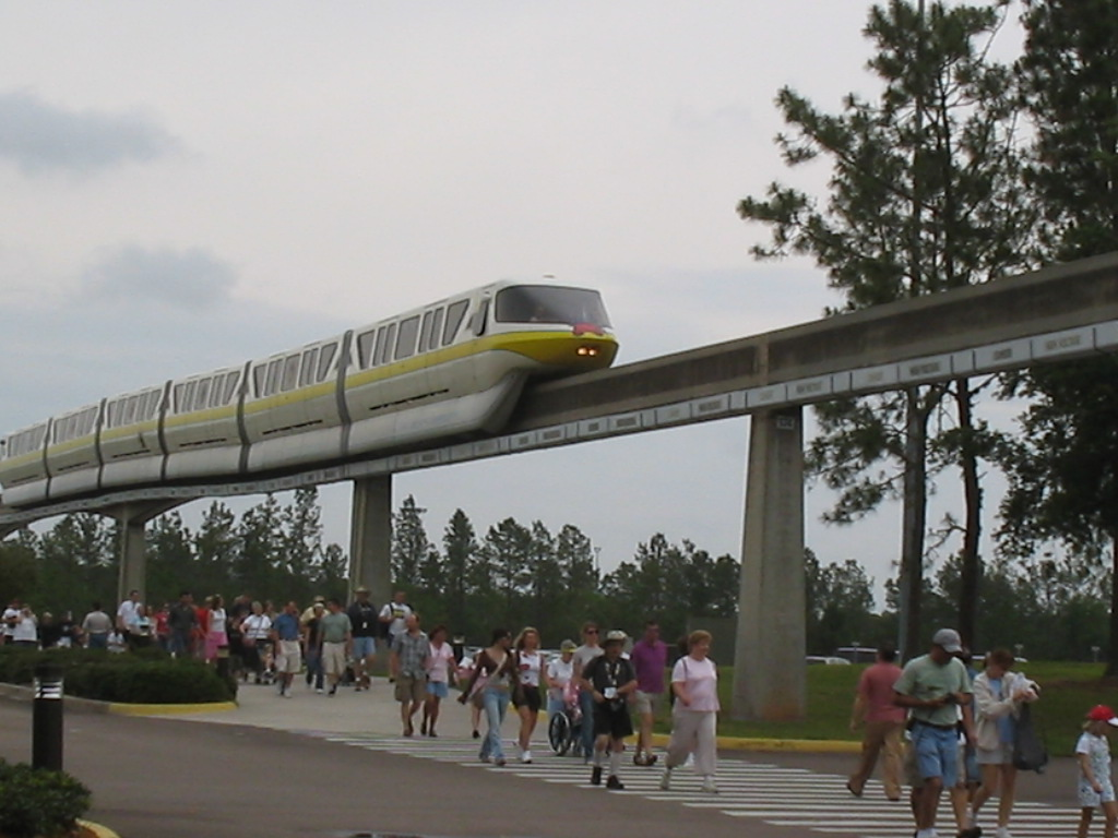 Monorail Disney World, Orlando, May 2005